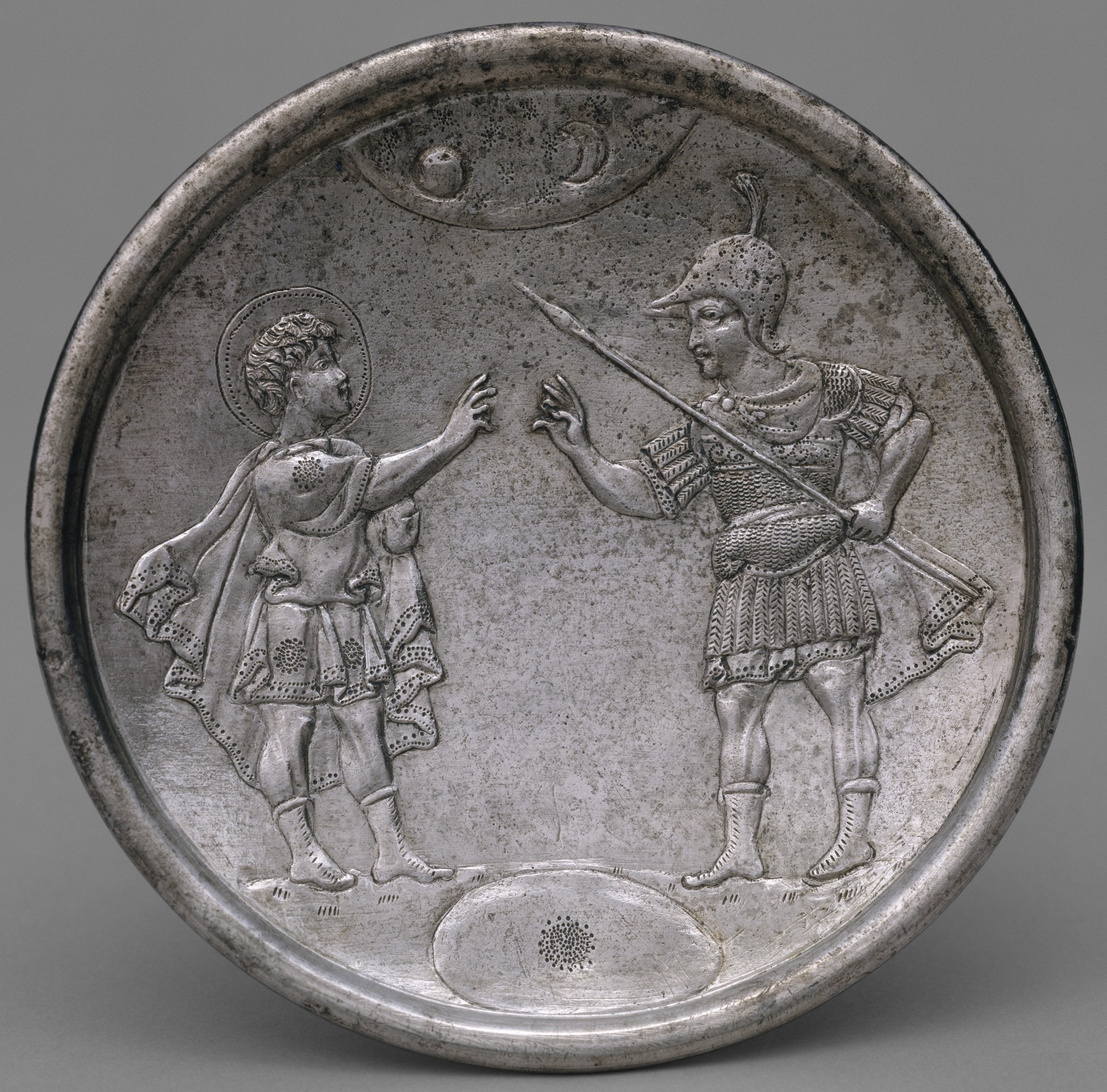 David's confrontation with Eliab, one of six silver plates depicting early scenes of the life of David, Constantinople, c. 629-30, the Metropolitan Museum of Art, accession 17.190.395 When Byzantine emperor Heraclius defeated Persian general Rhahzadh, Frankish writer Fredegar referred to Heraclius as someone who "advanced to the battle like a second David". This series of plates may be a reference to that